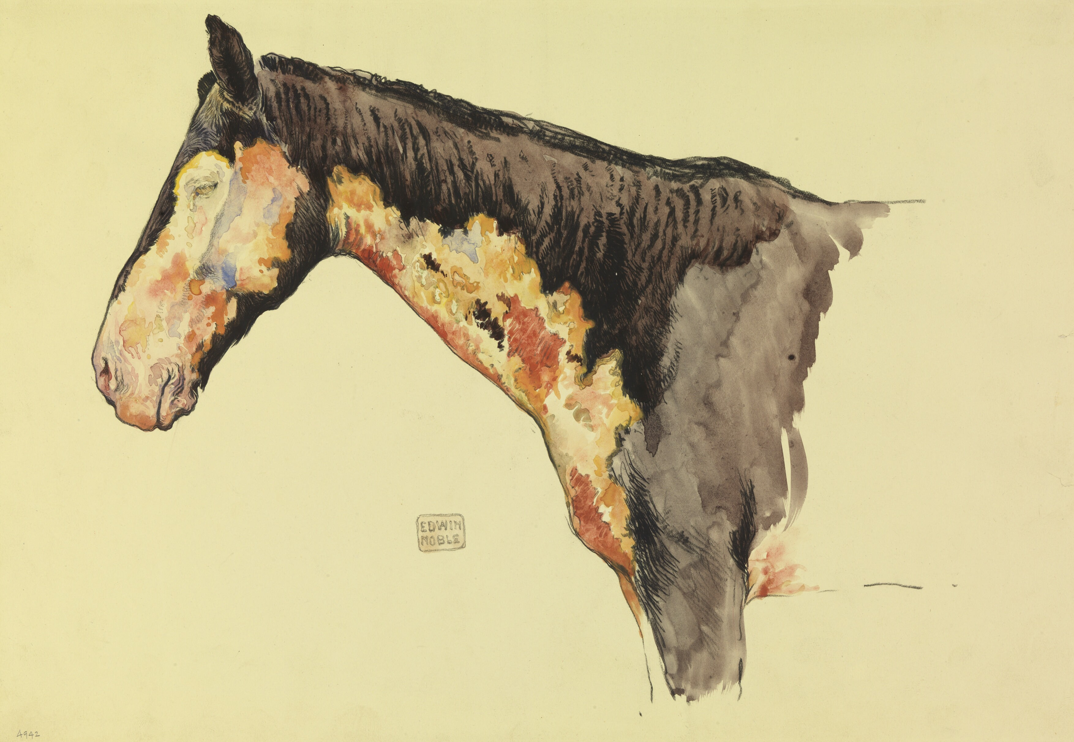 Mustard Gas- Sketch to Illustrate the Effect of Mustard Gas on Horses image: a study of the head, neck and upper part of a horse suffering from severe burns as a result of mustard gas. Large sections of the horse's head, neck and chest are hairless, with mottled red and orange skin bordered by the horse's natural brown coat.